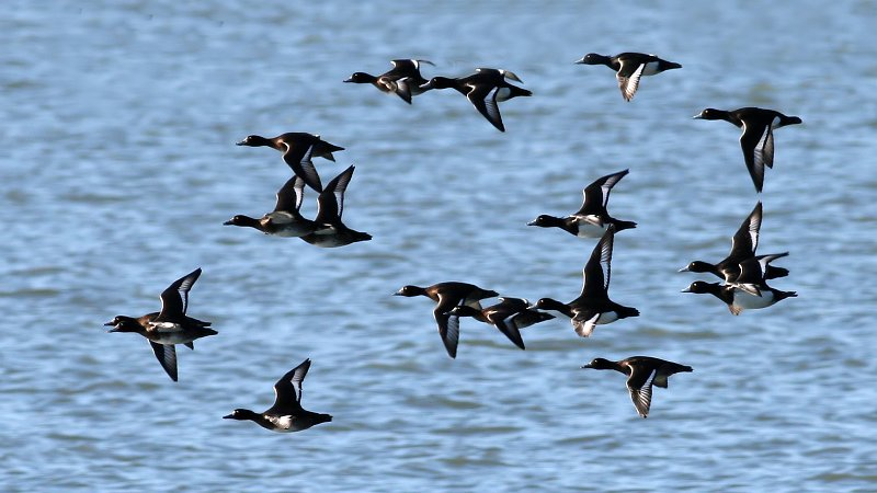 Tufted Duck (Aythya fuligula), Rheinspitz, Vorarlberg, Austria This image was created by Ken Billington. If you are interested in a high resolution copy of this image, please contact the author Ken Billington in order to negotiate conditions of use. Do not copy this image illegally by ignoring the terms of the license below, as it is not in the public domain. If you would like special permission to use, license, or purchase the image please contact me to negotiate terms. More free images can be found on Ken Billington's Bird & Wildlife Photography.